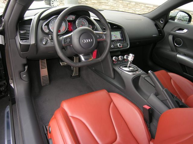 Interior of the Audi R8